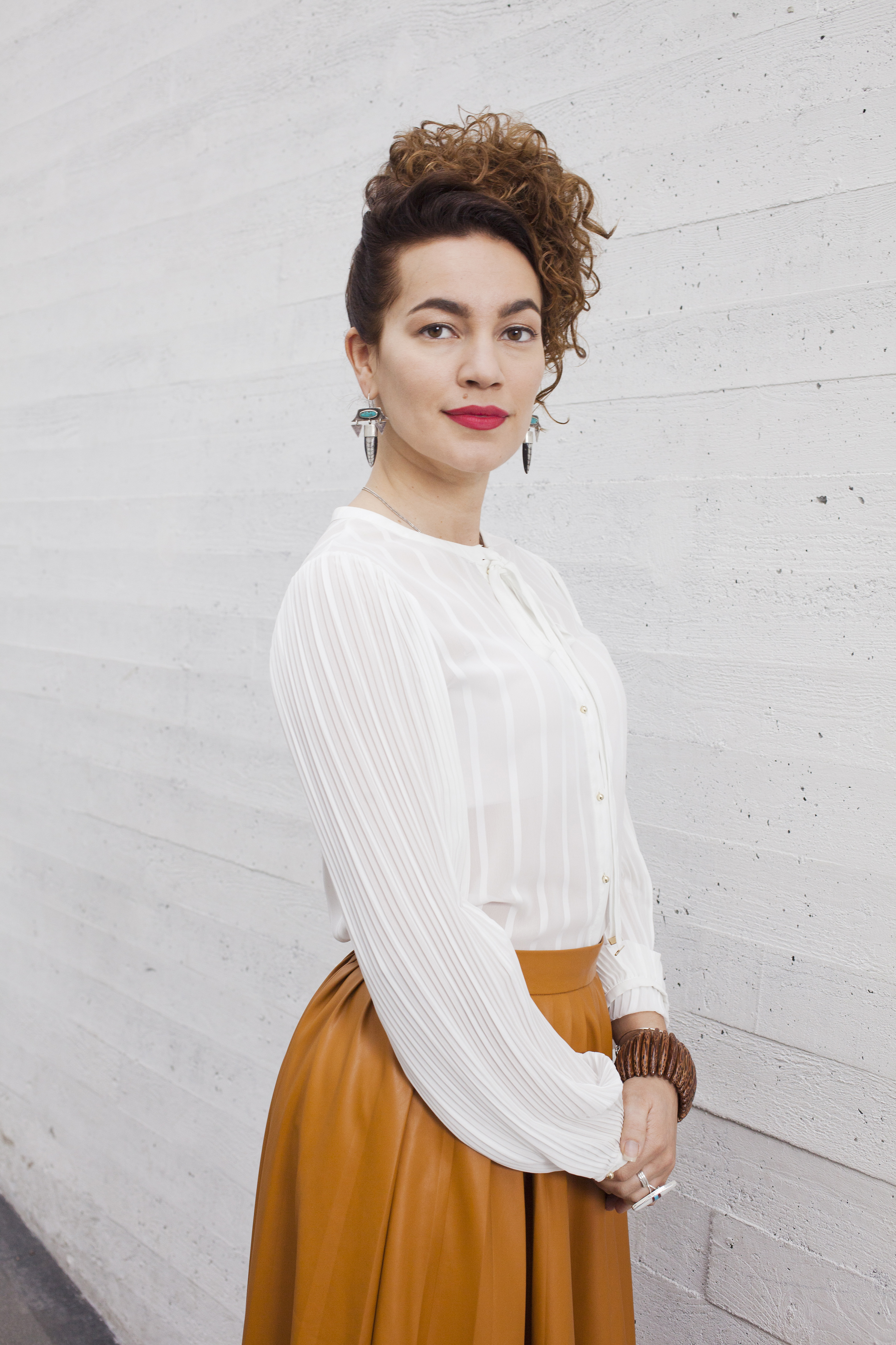 Photographer Meeri Koutaniemi kuva / Photo: Kansallisgalleria / Petri Virtanen Finlands Nationalgalleri / Petri Virtanen Finnish National Gallery / Petri Virtanen